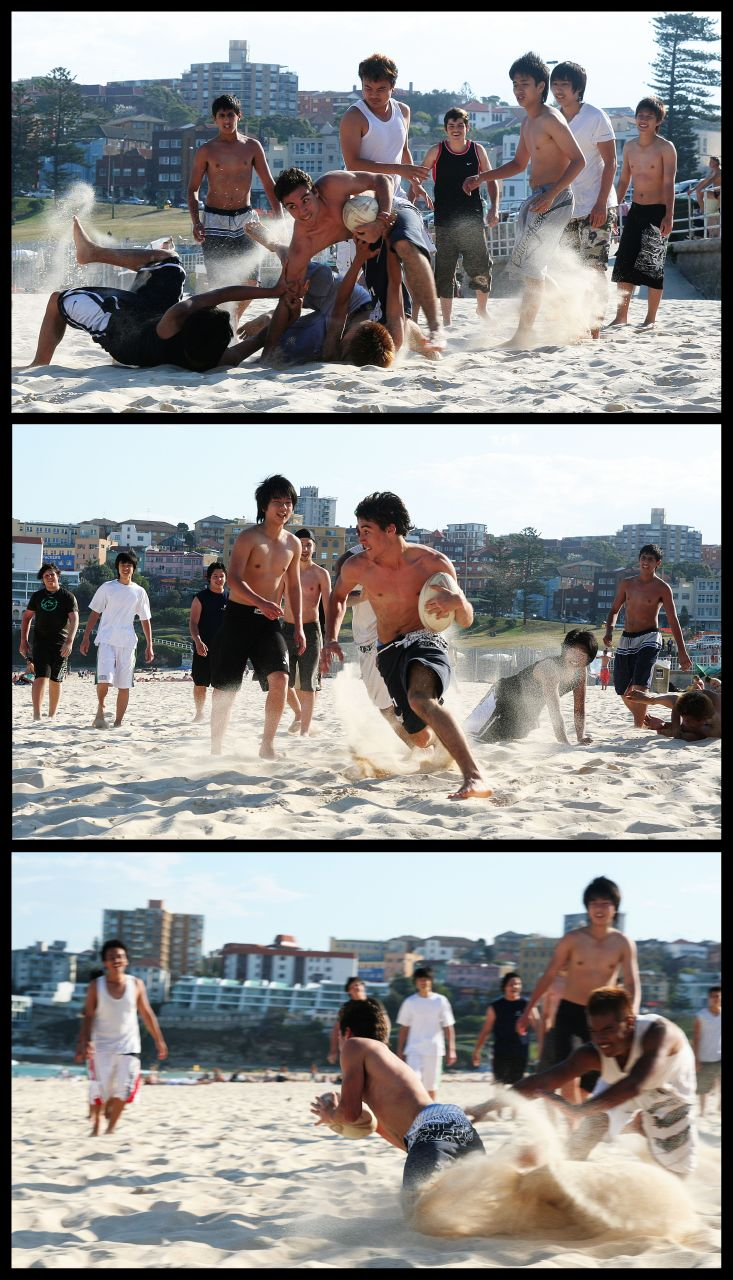 rugby at bondi beach, Australia. Was a lot of fun watching these guys. Best viewed in larger size